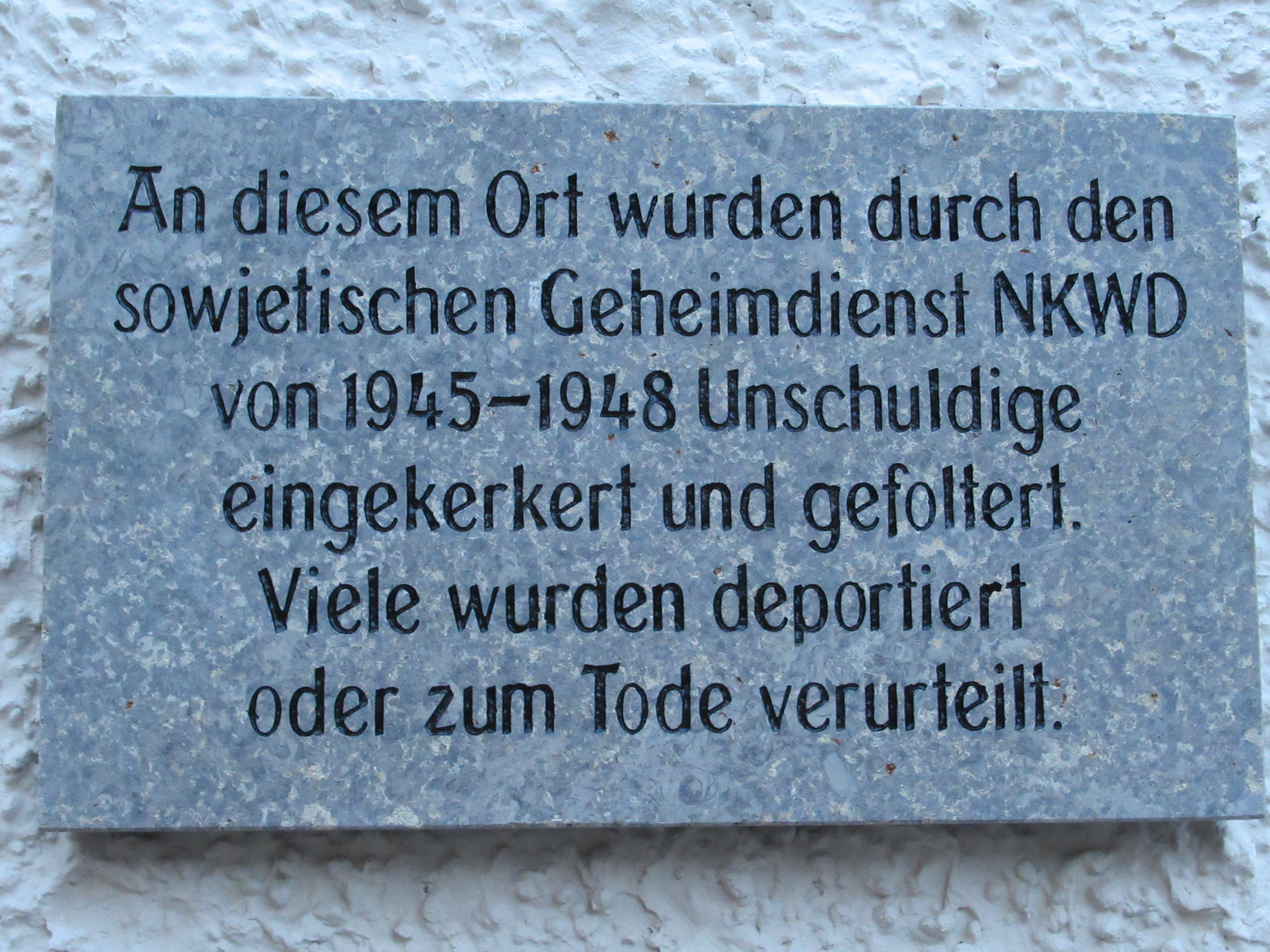 Mühlhausen Amtsgericht soviet NKWD 1945-1949